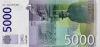 5000 Serbian dinar (RSD) From the site of the National bank of Serbia[1]. Licensing Слика:5000back.jpg